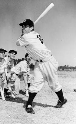 N.Y. Yankee Charlie Keller demonstrating home run swing to students, Bartow, Florida.